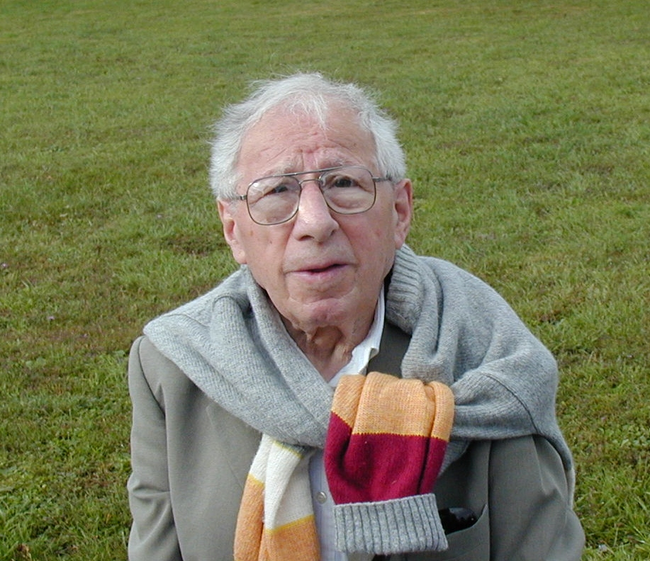 Adolphe Low